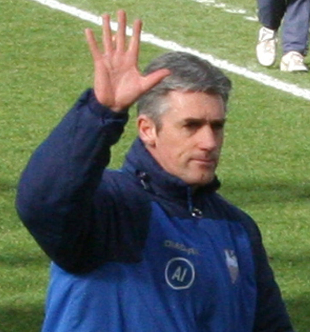 Alan Irvine. Image cropped from original at flickr.